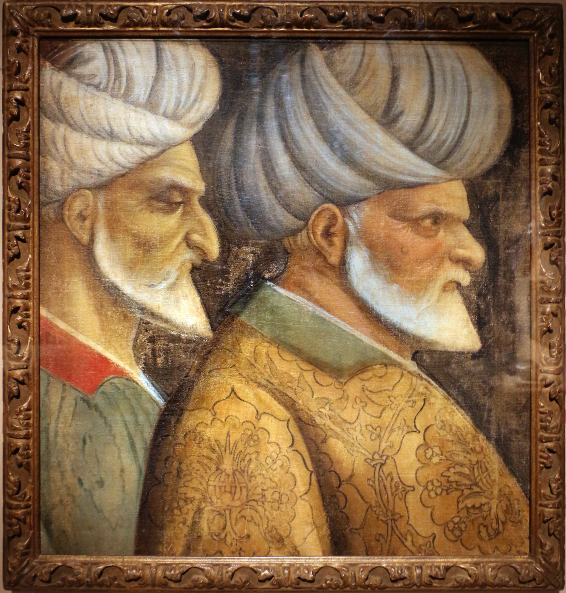 Italian paintings in the Art Institute of Chicago